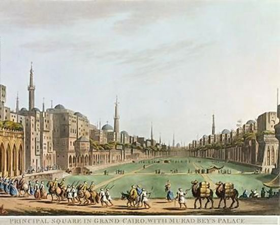 Principle Square In Grand Cairo, With Murad Bey's Palace 1801